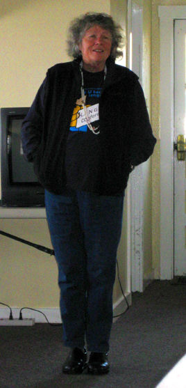 Leanne Hinton, a linguist, professor at University of California, Berkeley, and author, speaking at an Advocates for Indigenous California Language Survival "Language Is Life" conference, at the Marin Headlands, California, 2008